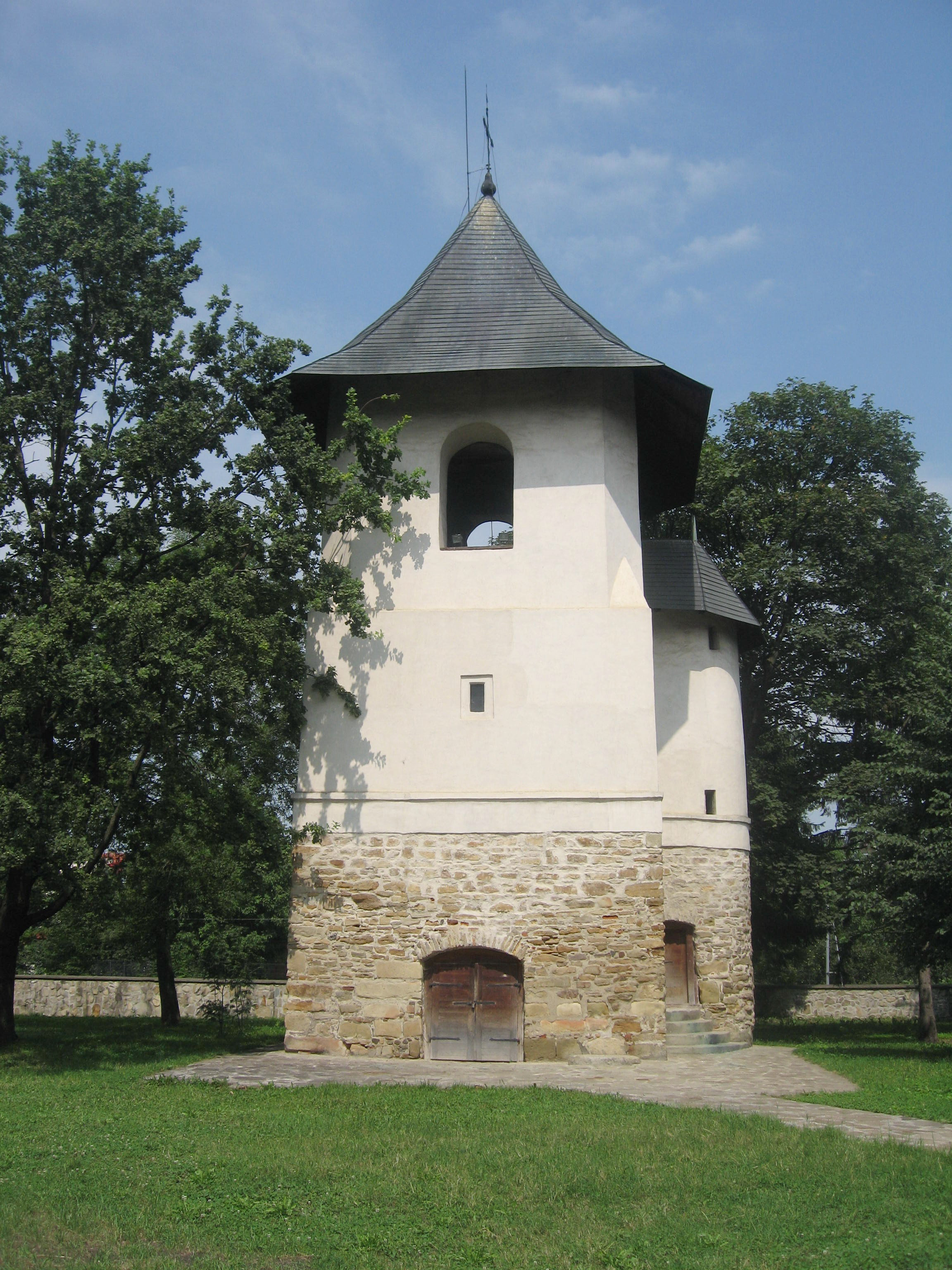 Bogdana Monastery